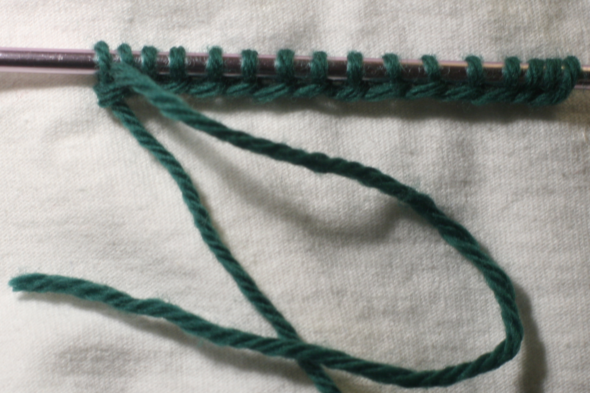 A long-tail cast-on used to begin a knitted item